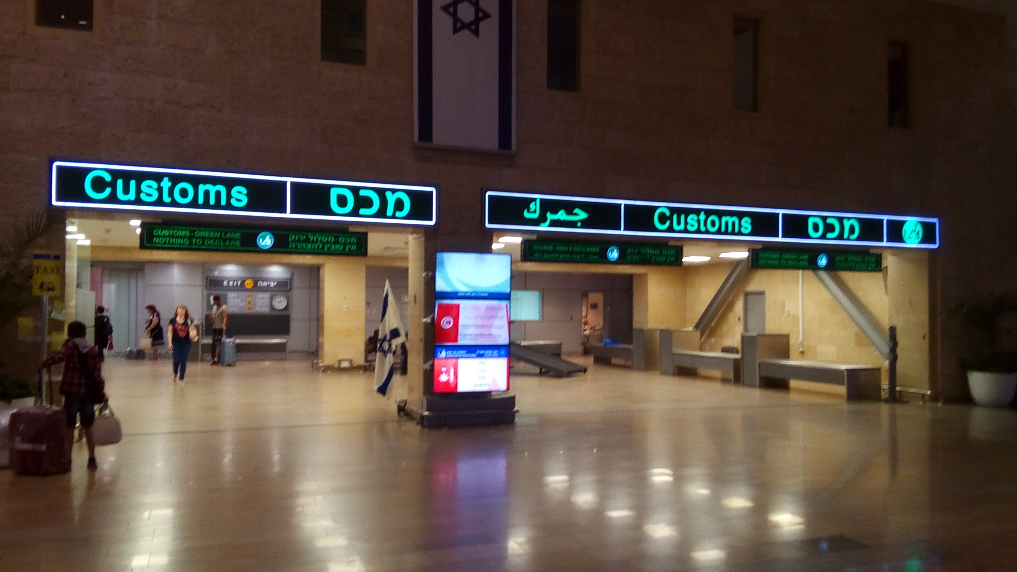 Customs at Ben Gurion Airport, Israel